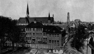 Old picture of the Christelijk Gymnasium Utrecht